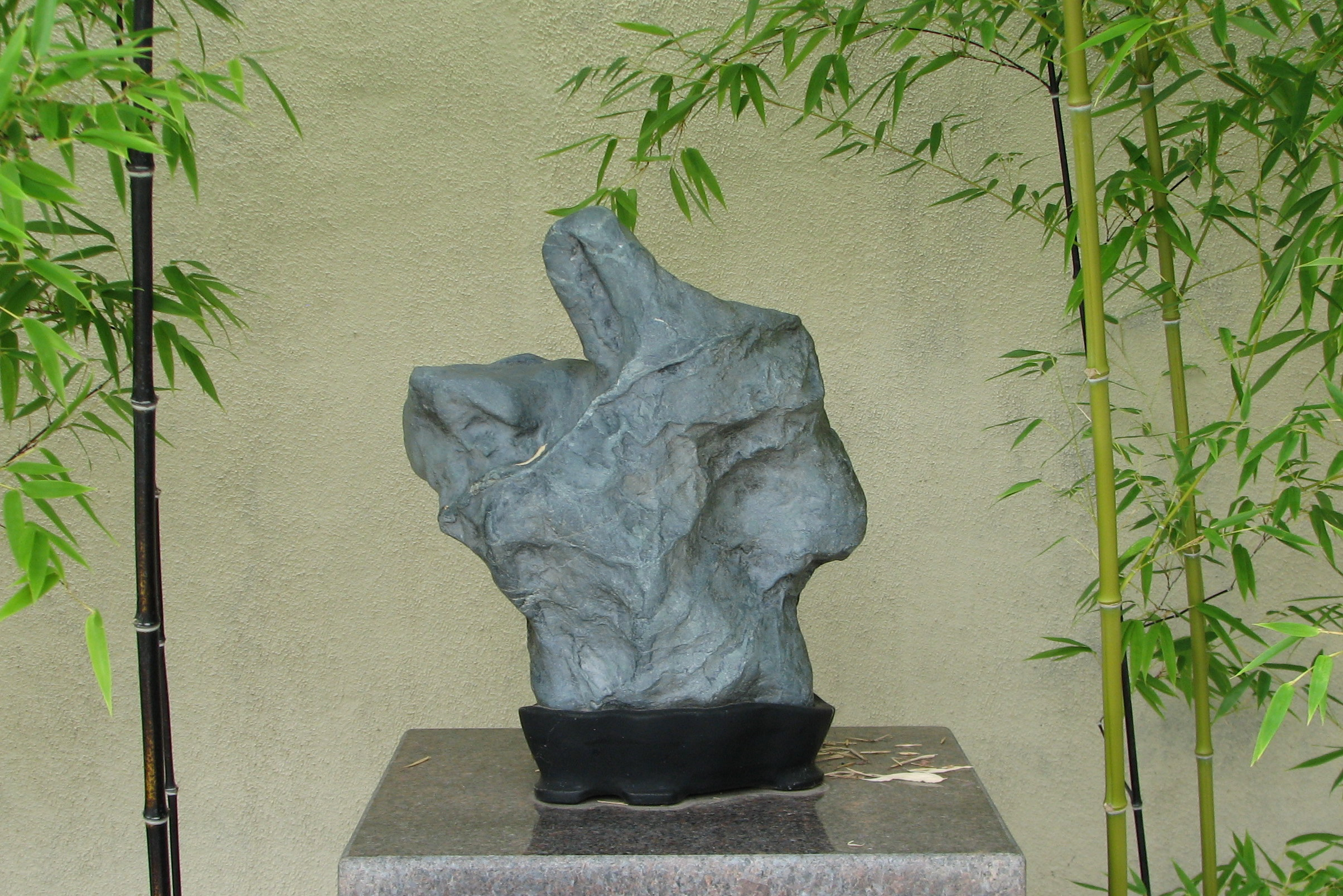 A suiseki (scholar's stone) at the National Bonsai & Penjing Museum of the United States National Arboretum